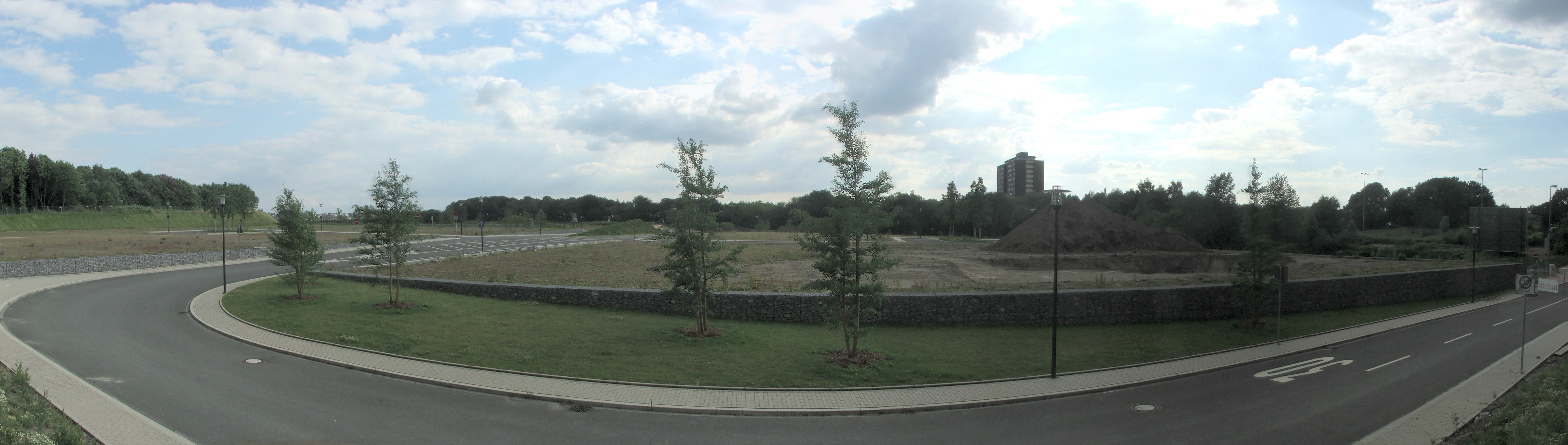 Biomedizinpark Ruhr